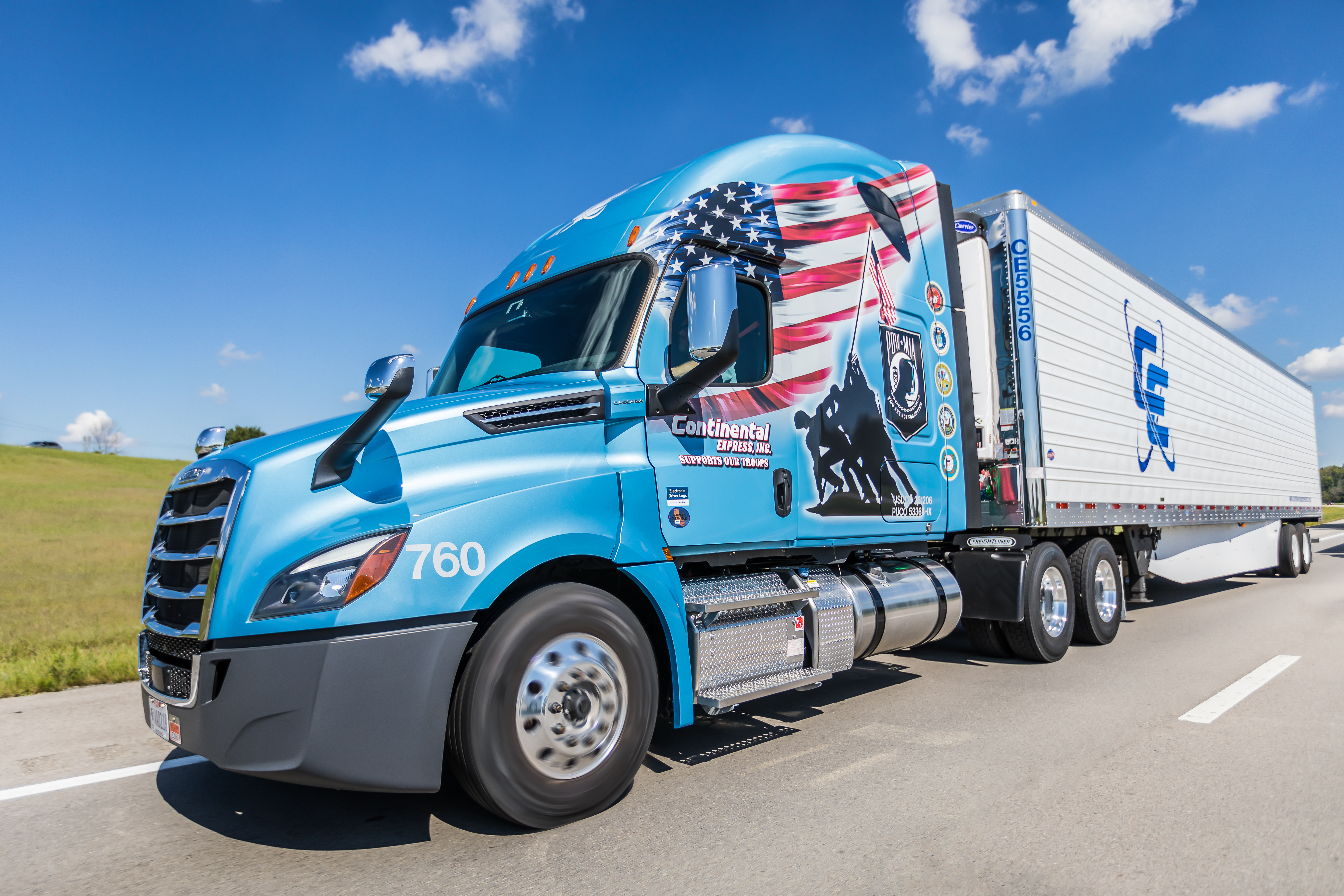 Continental Patriotic Truck